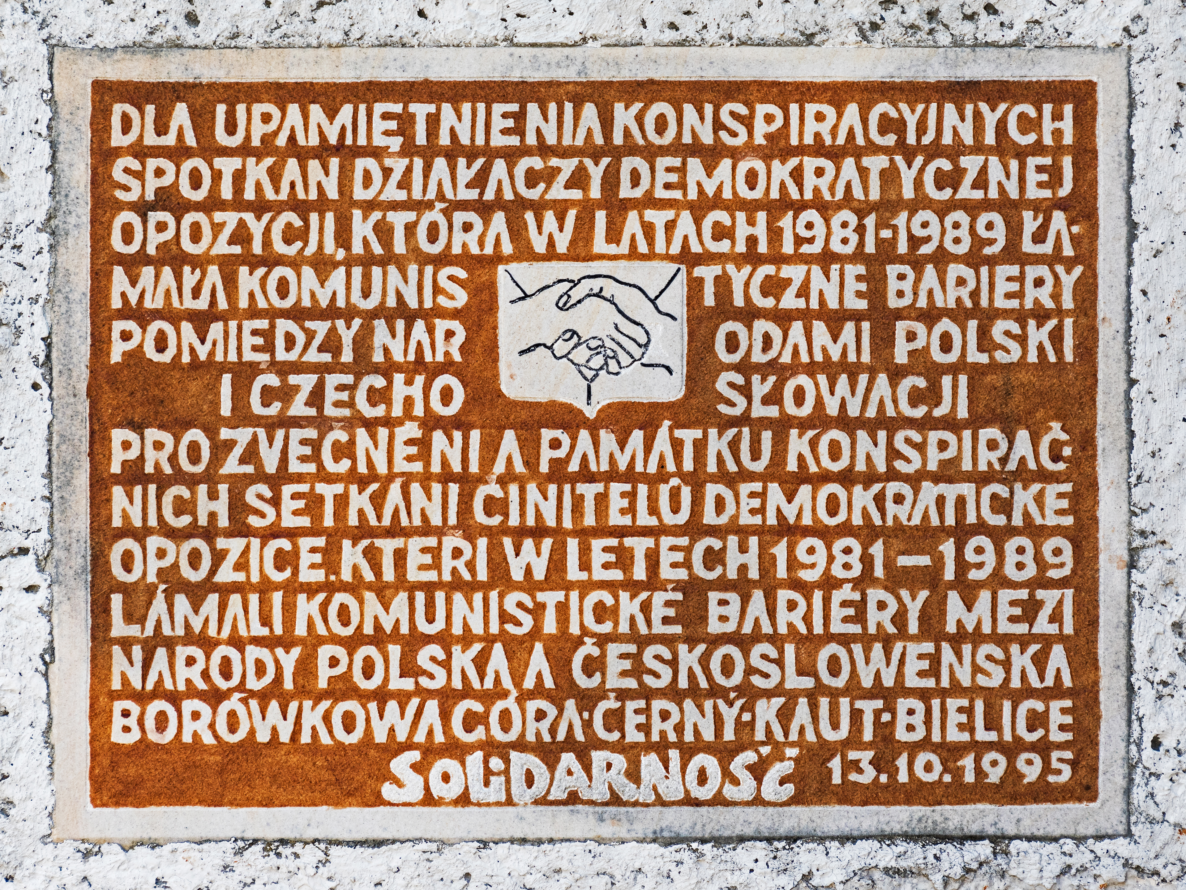 Saint Vincent church in Bielice